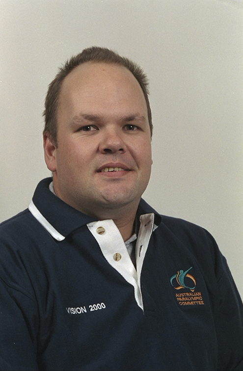 Portrait of Australian standing volleyball player Brett Holcombe, 2000 Australian Paralympic Team athlete